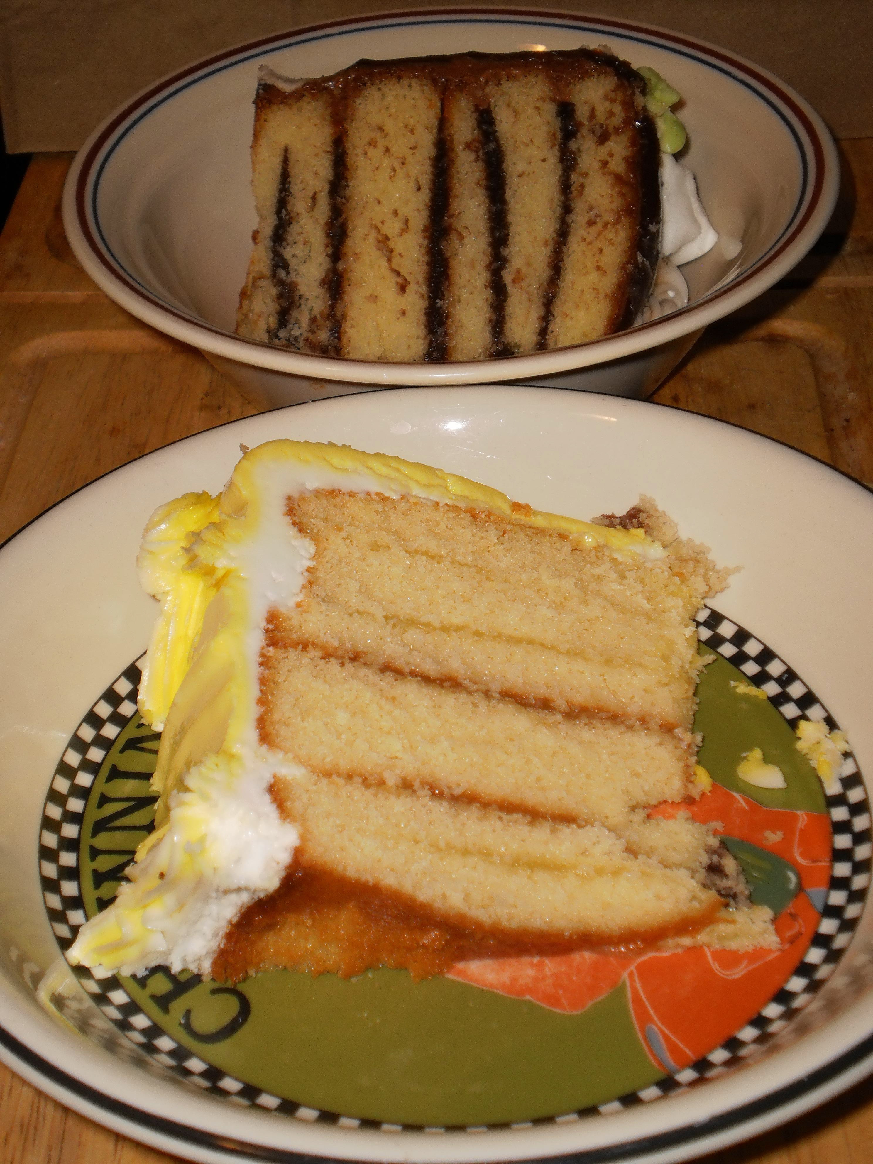 Doberge cake slices, chocolate and lemon